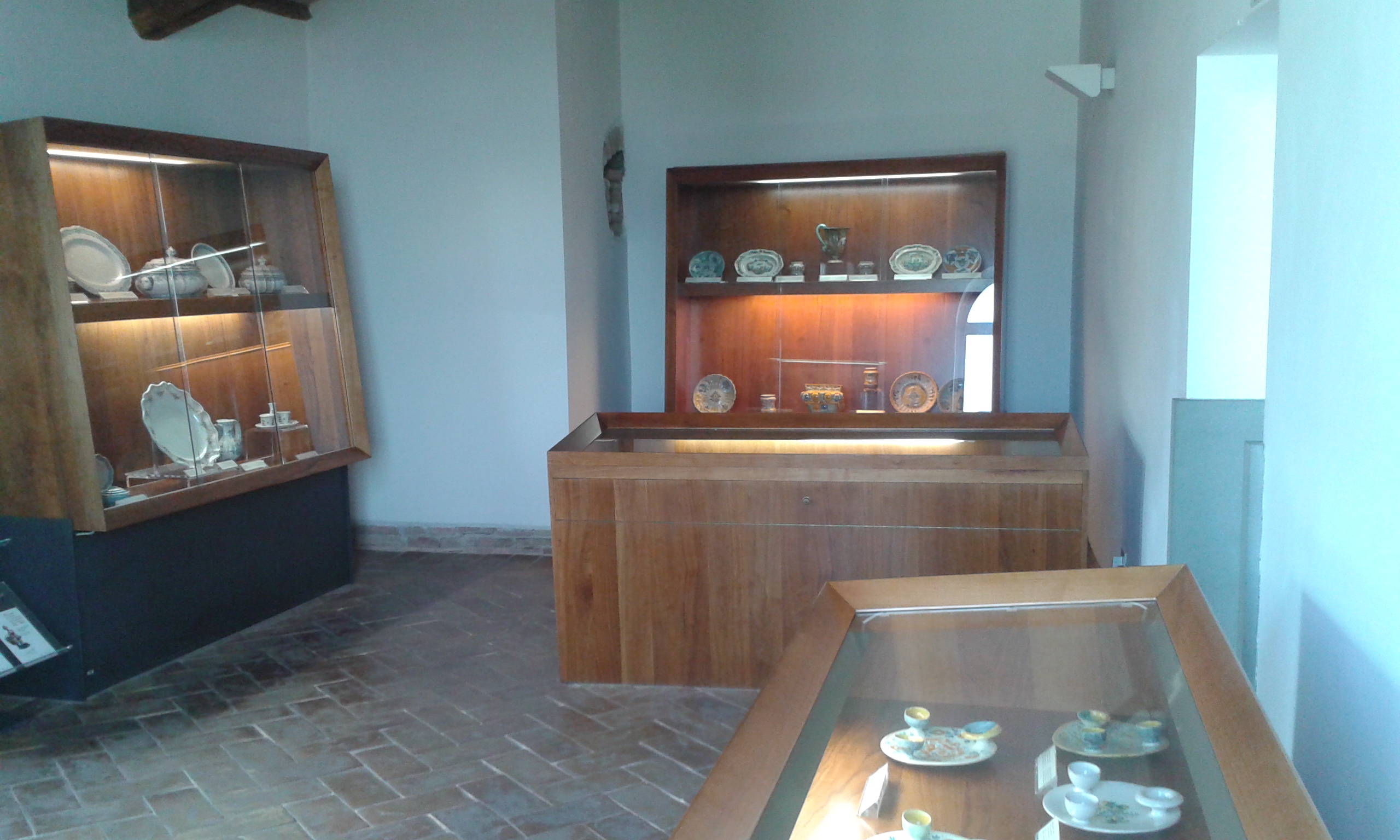 sala del settecento